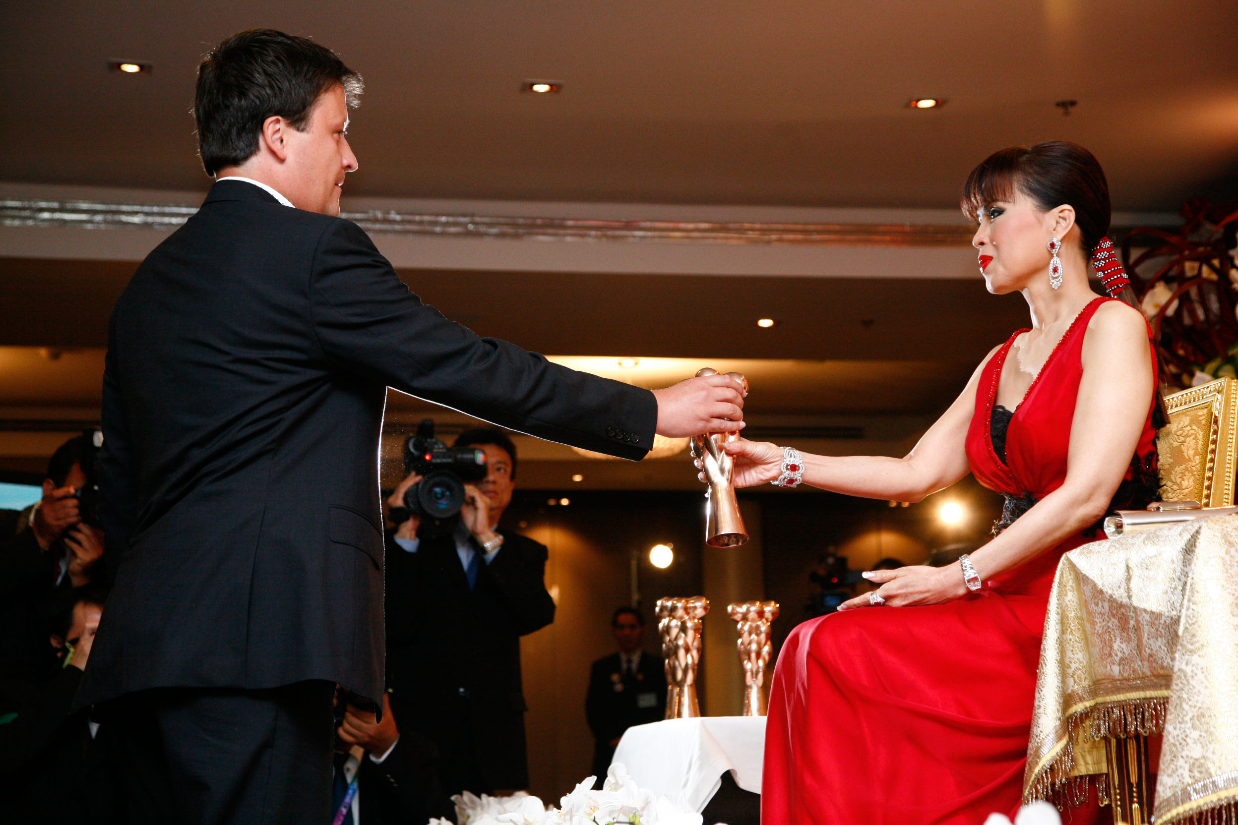 Ergo wins first prize at Bangkok International Animation Festival. Director Geza M. Toth and Princess of Thailand.